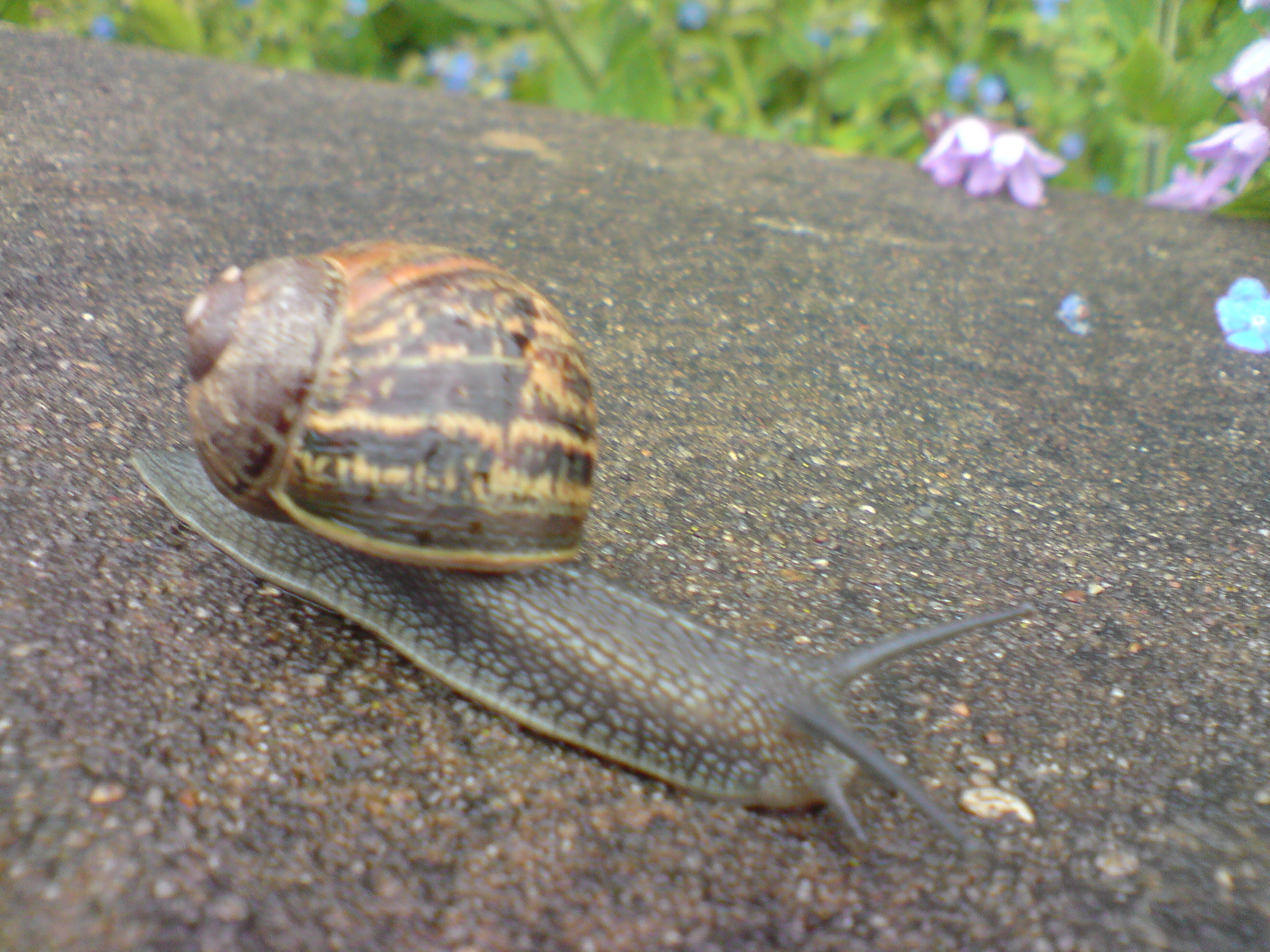 Helix aspersa in Richmond Park, England.